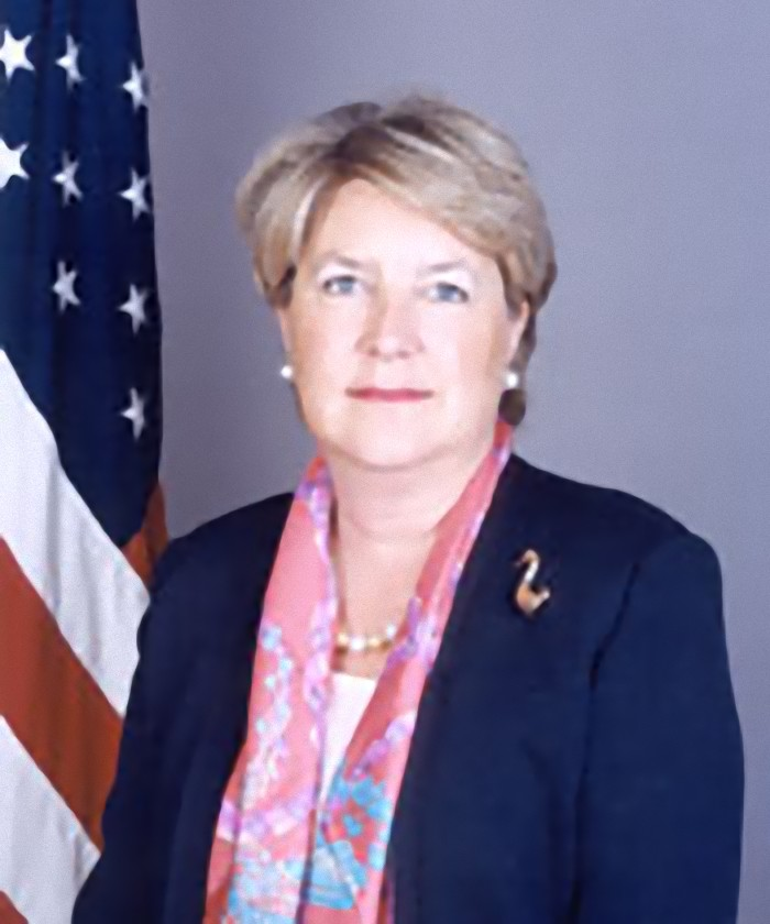 Margaret DeBardeleben Tutwiler, Under Secretary of State for Public Diplomacy and Public Affairs.